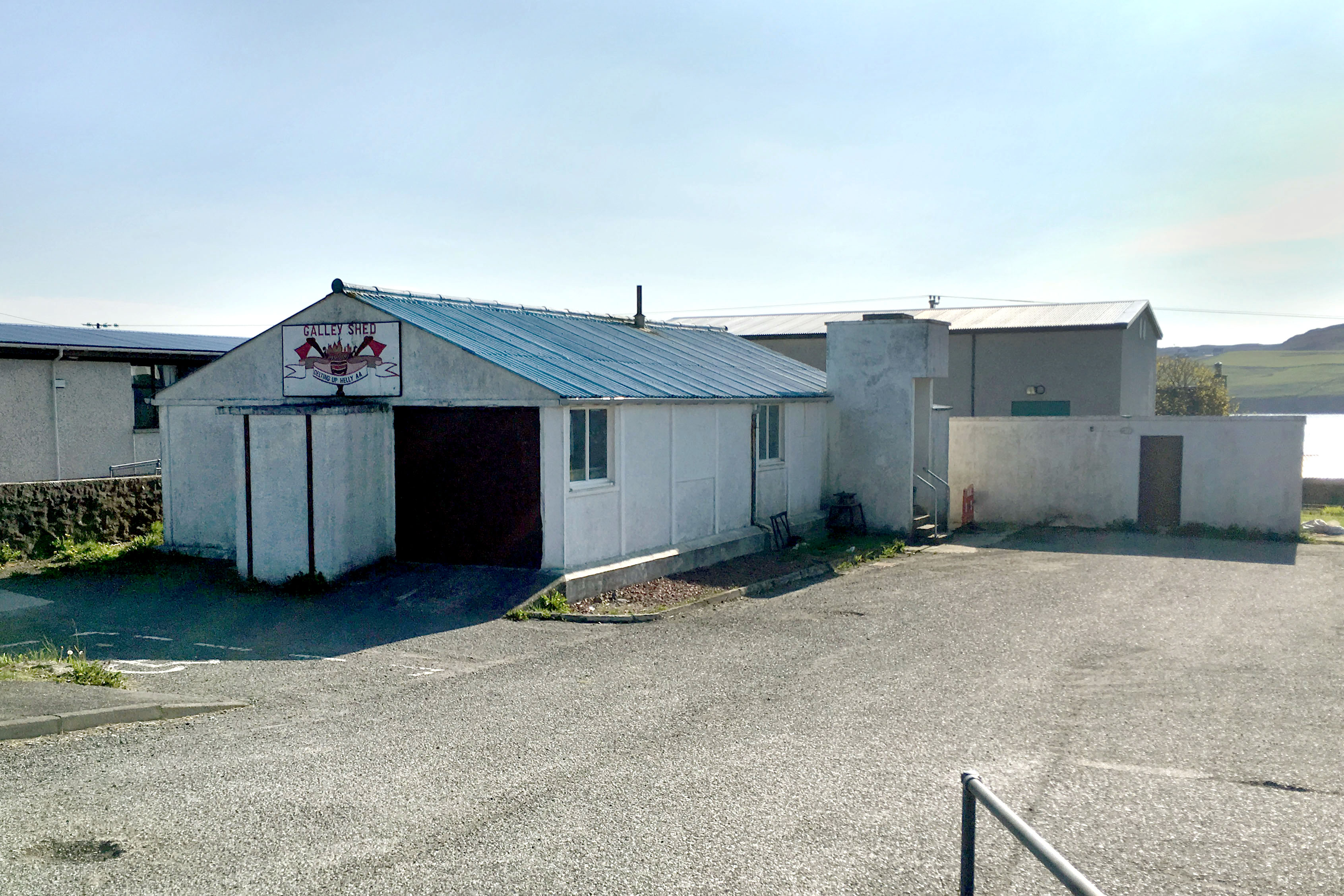 The former Delting Up Helly Aa Galley Shed, which was demolished in 2016 to make way for its replacement.